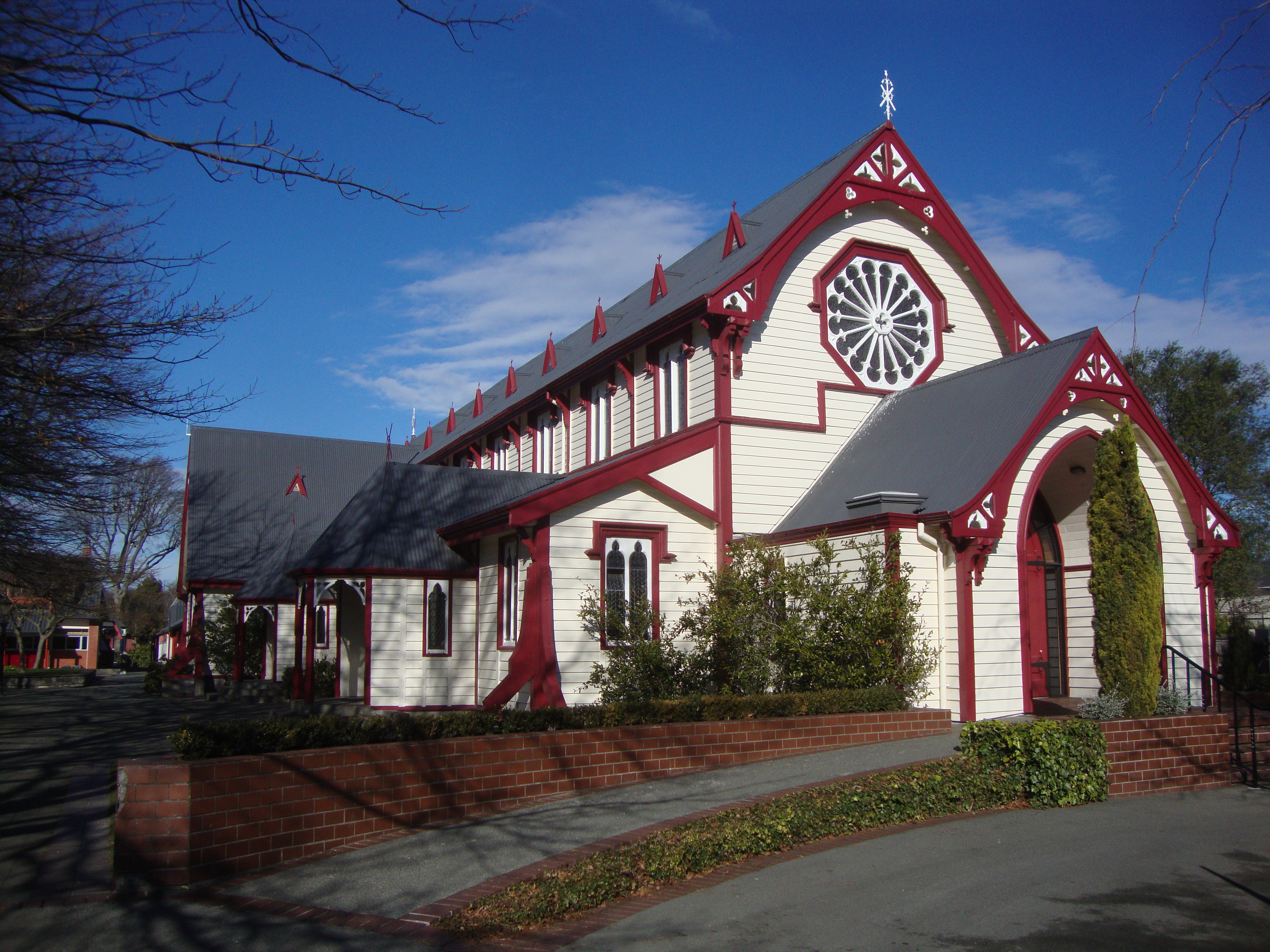 St Andrew's Church, Christchurch, in July 2012.